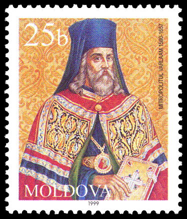 Stamp of Moldova